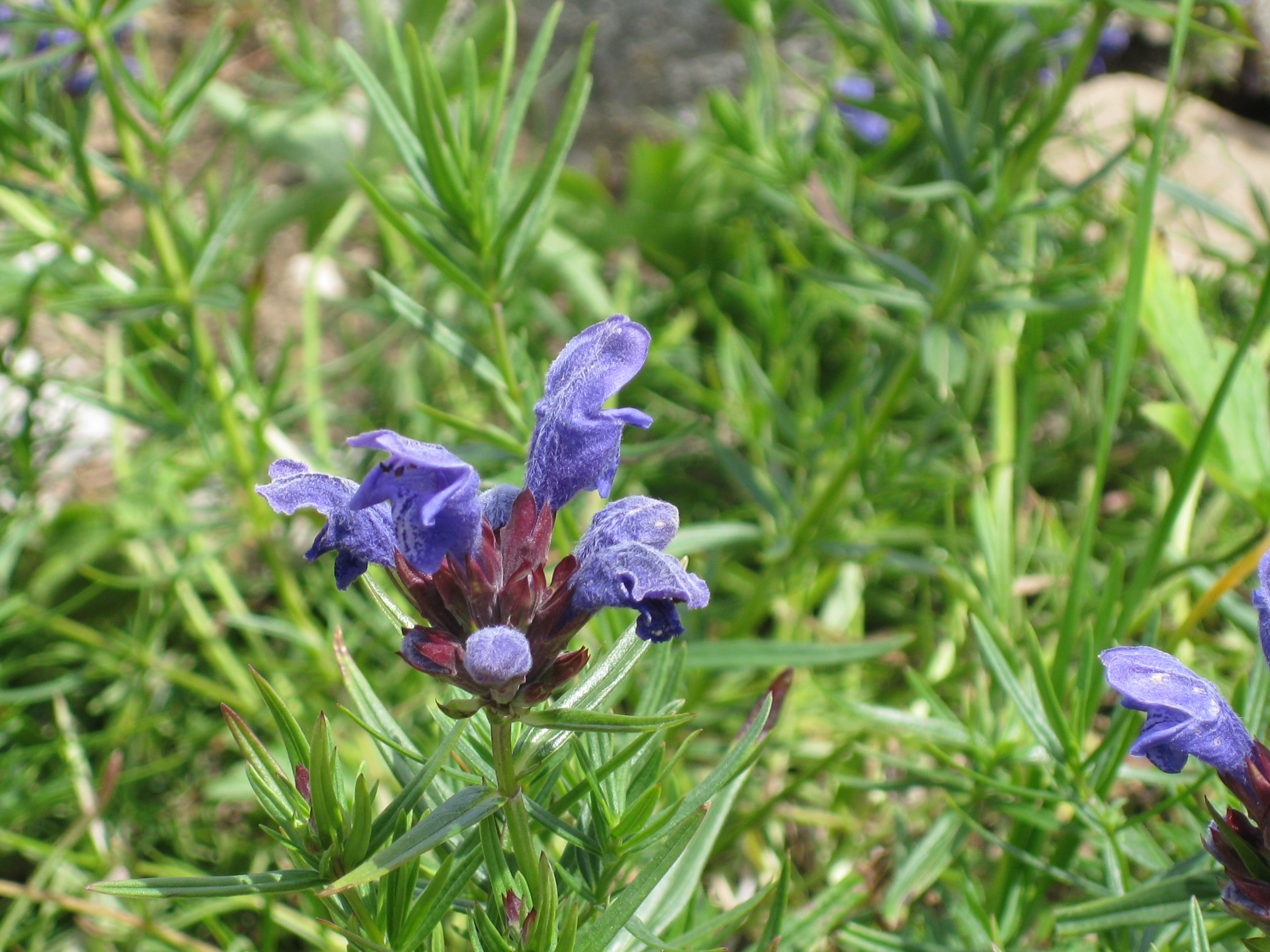 Dracocephalum ruyschiana in the Jardin Botanique Alpin du Lautaret